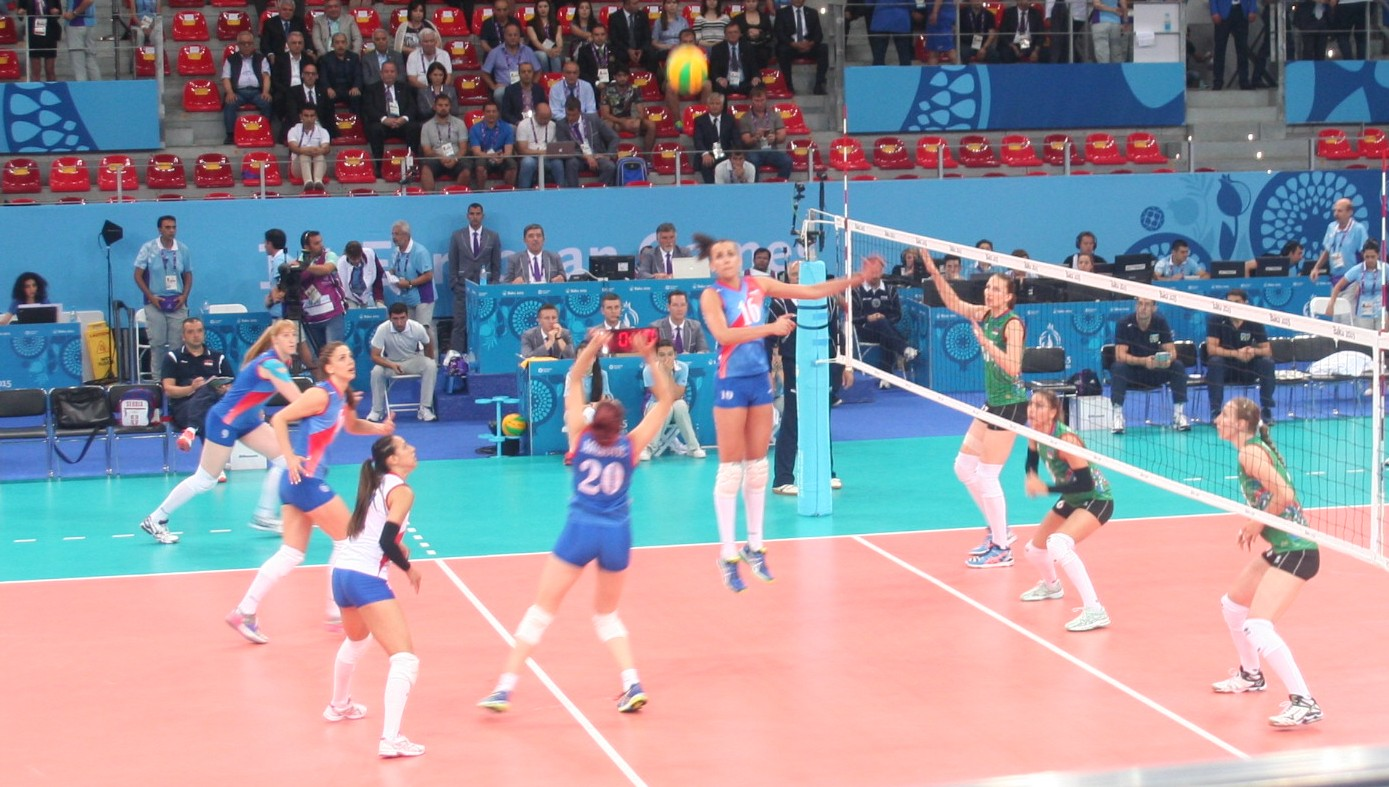 Bronze match between Azerbaijan and Serbia at the 2015 European Games women's volleyball